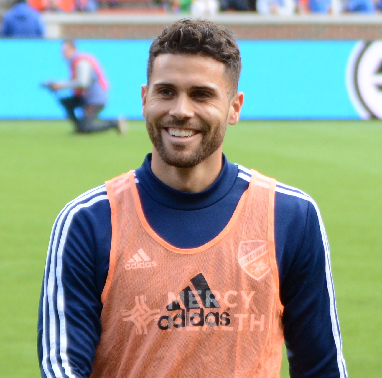 Taken during FC Cincinnati's Major League Soccer regular season home opener match against Portland Timbers at Nippert Stadium in Cincinnati, USA on March 17, 2019.